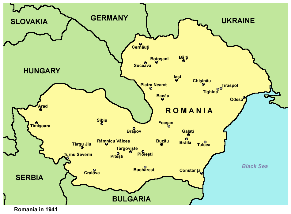 Historic map of Romania in 1941.